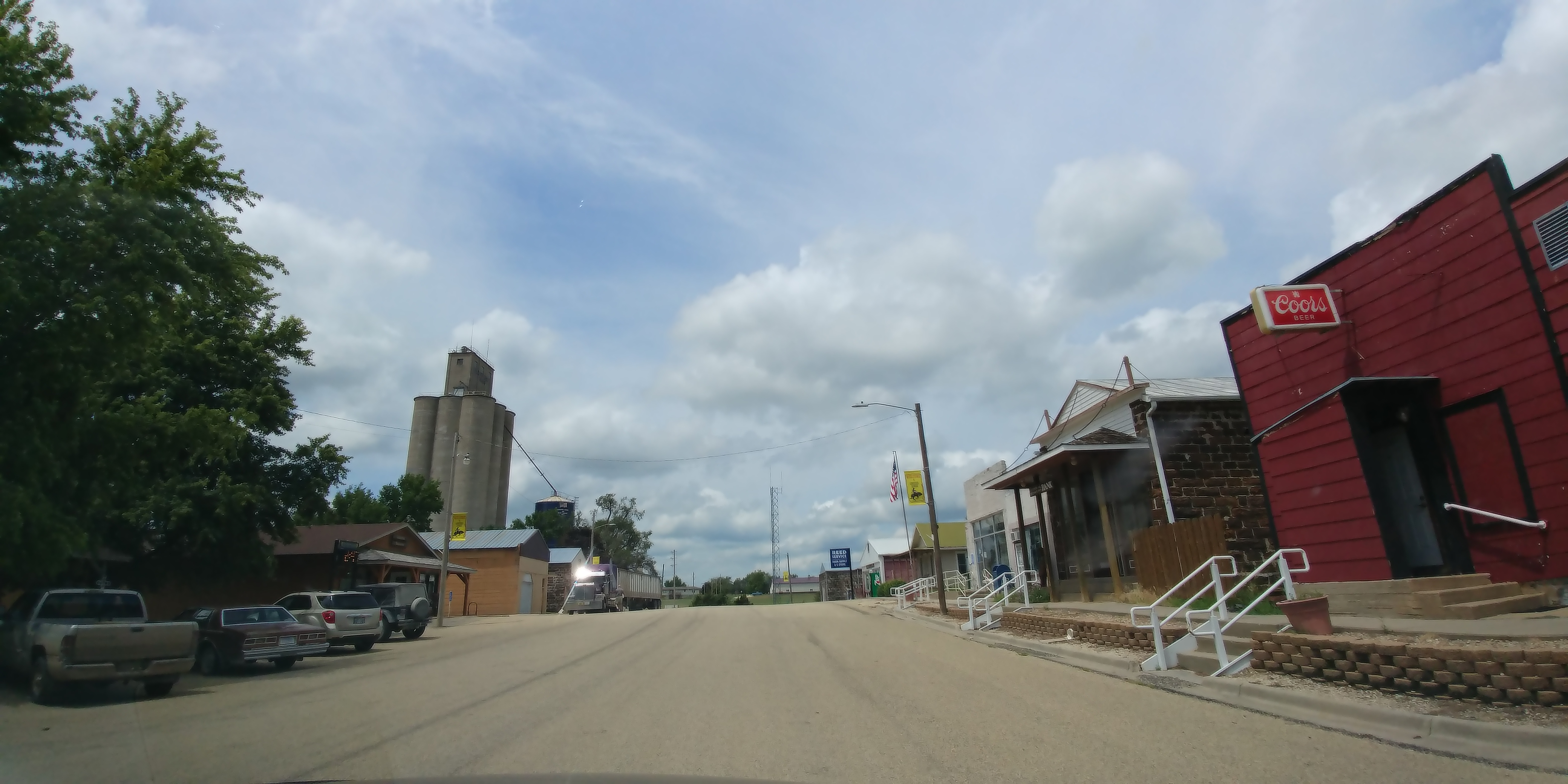 Downtown Longford, Kansas, circa July 27th, 2017. The city hall is in the back on the left.